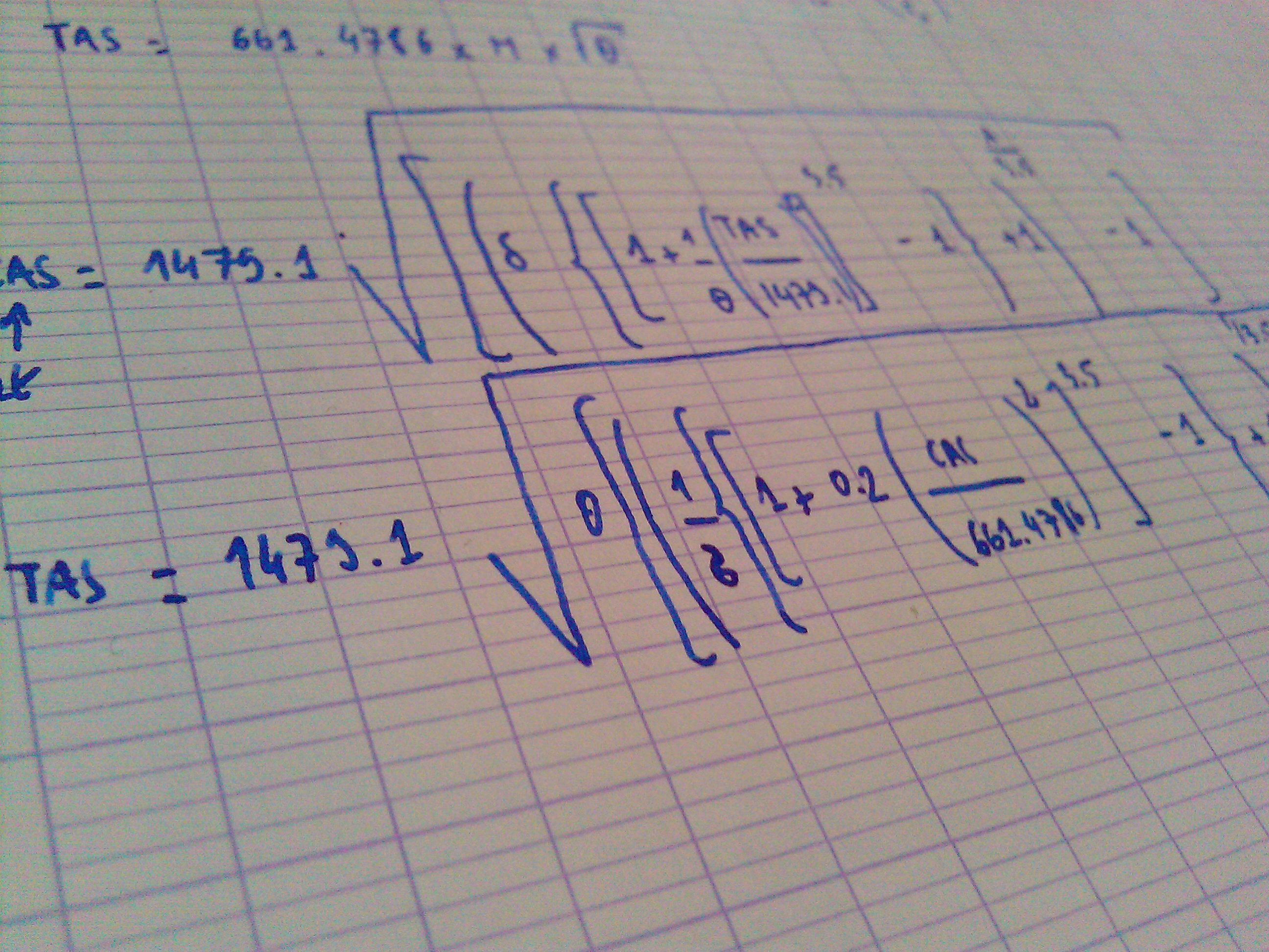 Conversion True Air Speed and Calibrated Airspeed